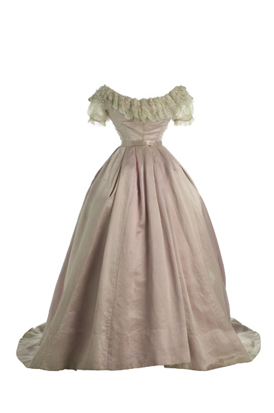 Mauve silk satin ballgown c. 1870.